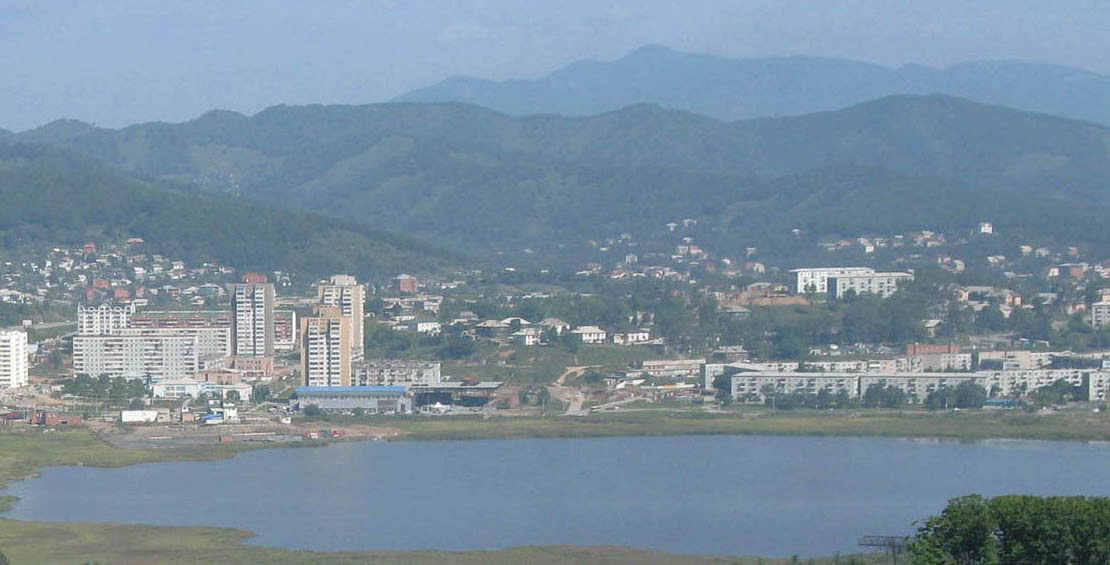 Solyonoe (lit. Salt) Lake and Nakhodka